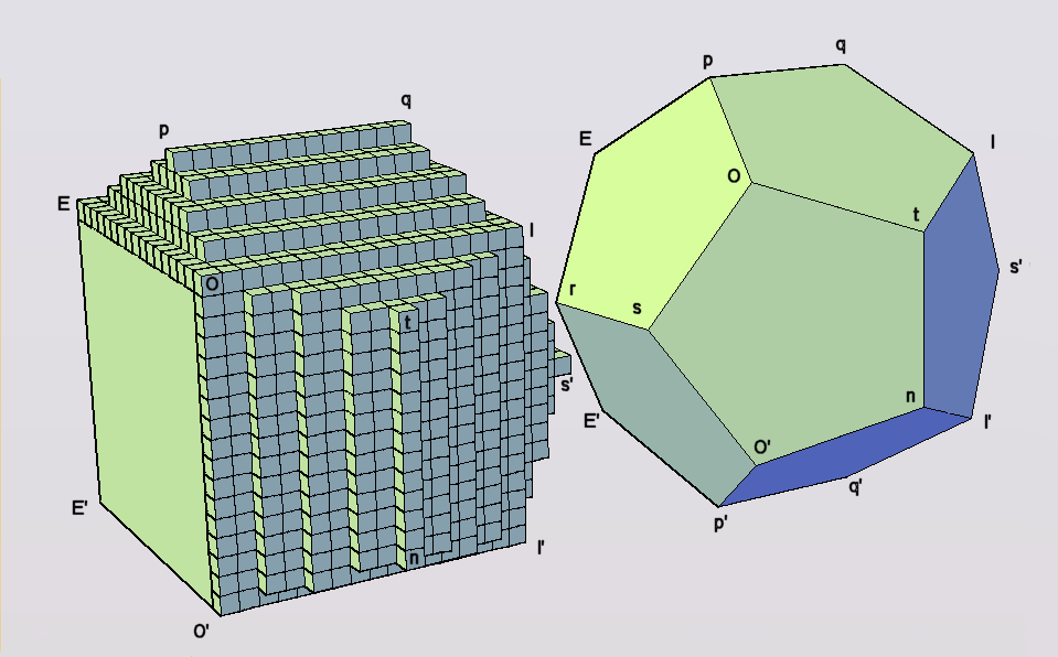 Regular dodecahedron, built from smaller cubic units. After a drawing by René Just Haüy, in: Traité de Minéralogie, 1801